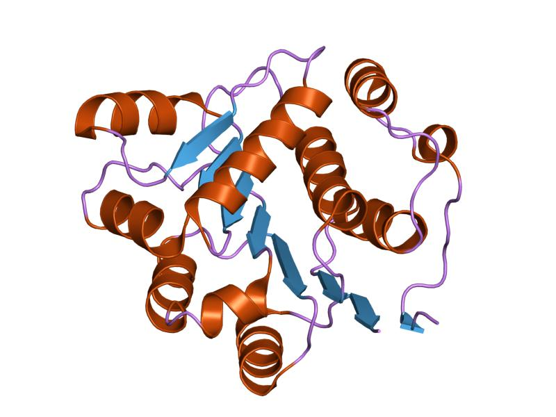 Cartoon representation of the molecular structure of protein registered with 1qva code.